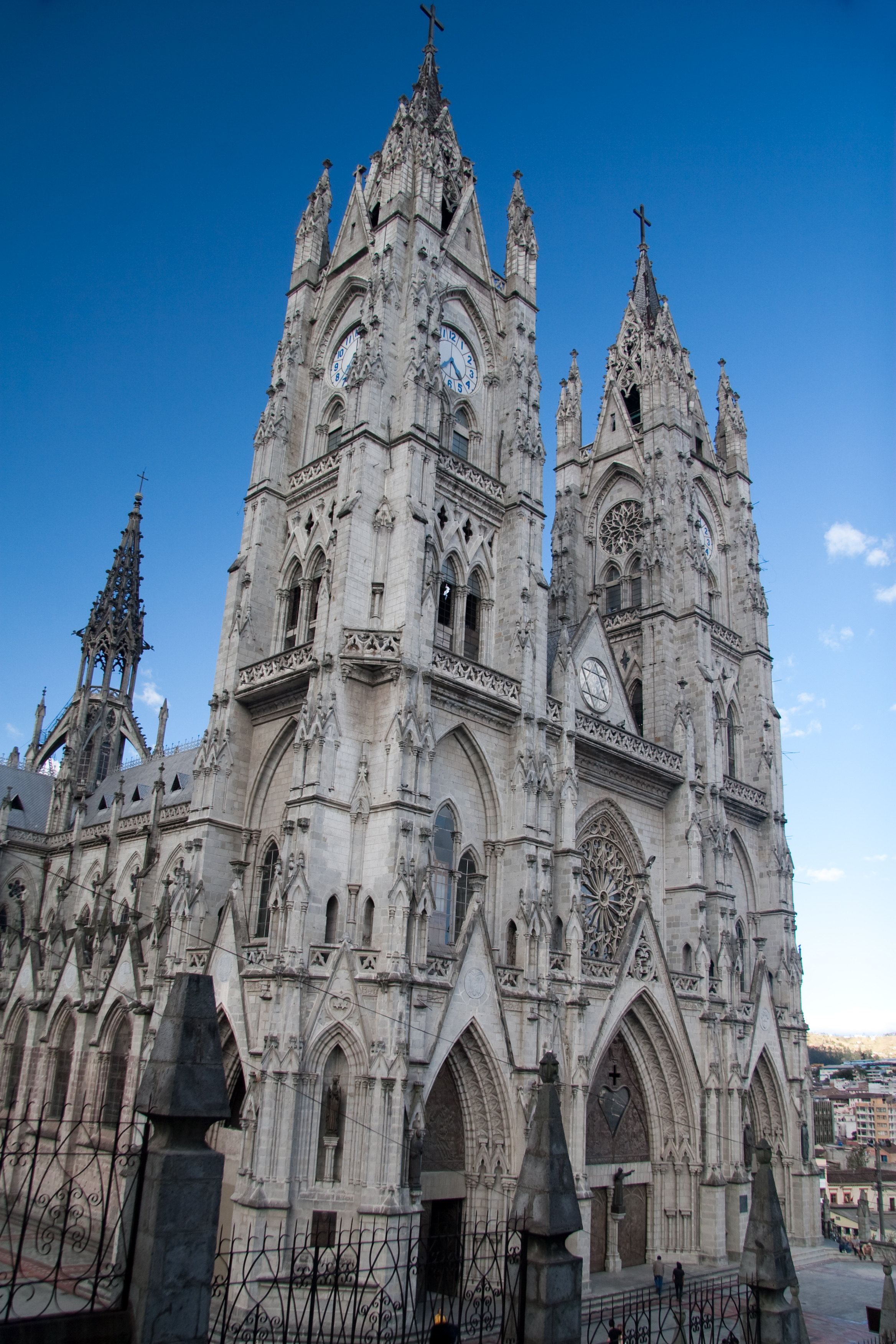 The Basilica of the National Vow (Spanish: Basílica del Voto Nacional) is a Roman Catholic church located in Quito, Ecuador. 0°12′54.2″S 78°30′27.4″W / 0.215056°S 78.507611°W